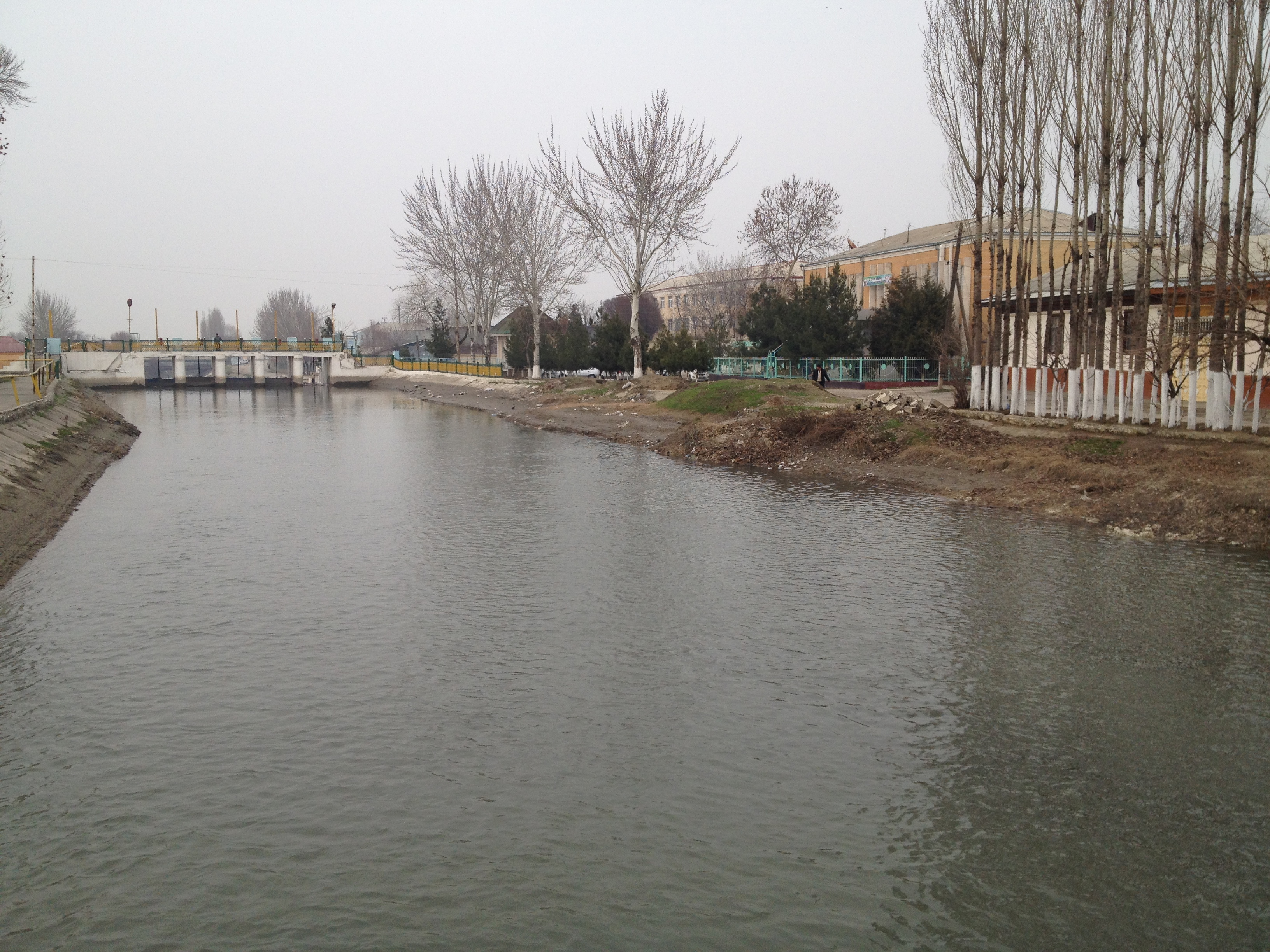 Andijan Say canal (river) in Andijan cityOʻzbekcha/ўзбекча: Andijonsoy kanali Andijon shahrida